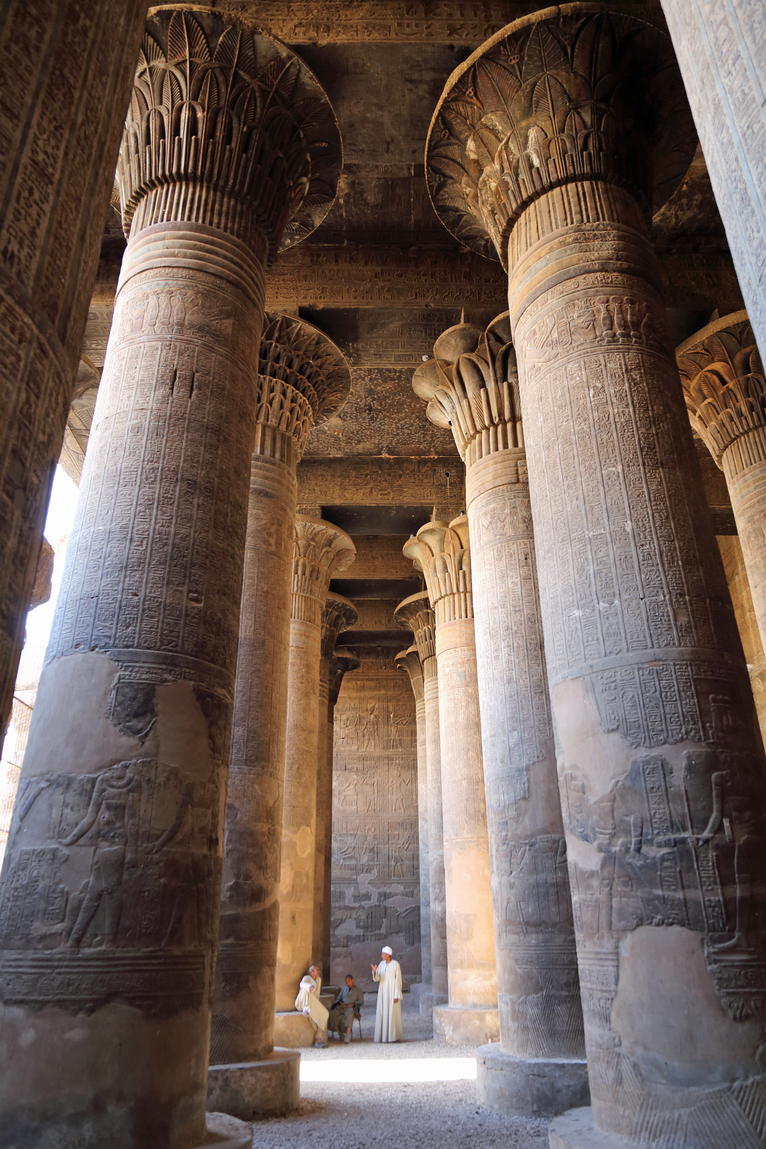 Interior of the temple of Esna (Egypt)